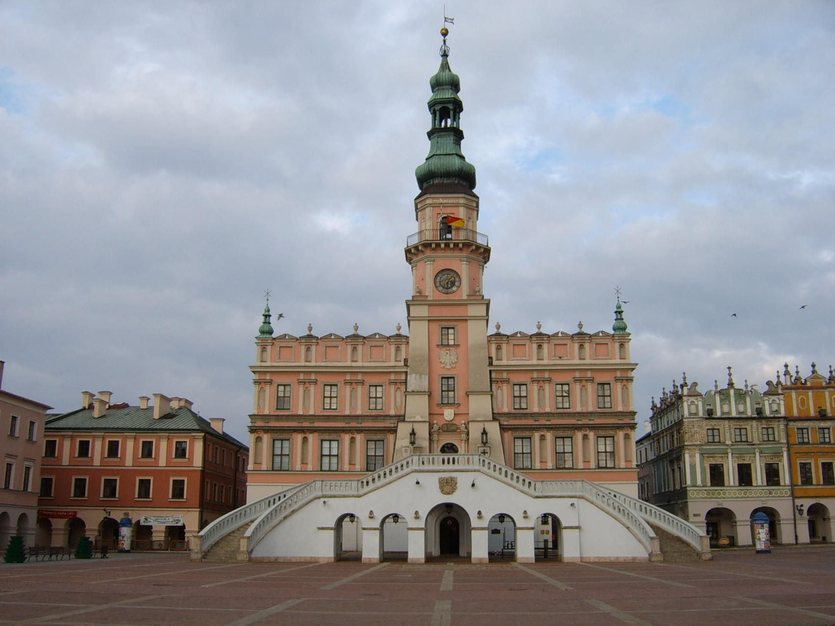 Town Hall in Zamość